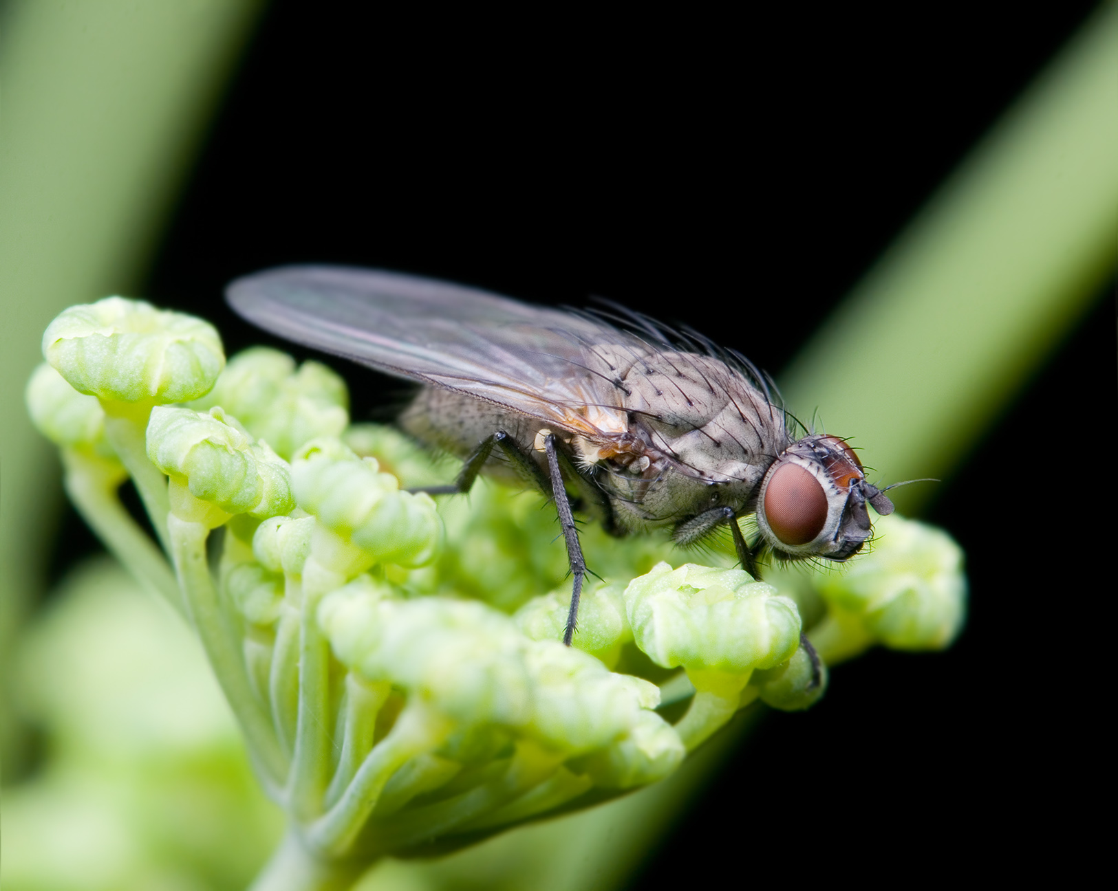 Adia cinerella on Anethum graveolens. Scale bar is 2mm. Camera data Camera Canon EOS 400D Lens Tamron EF 180mm f3.5 1:1 Macro Flash Umbrella Right Focal length 180 mm Aperture f/8 Exposure time 1/125 s Sensivity ISO 400